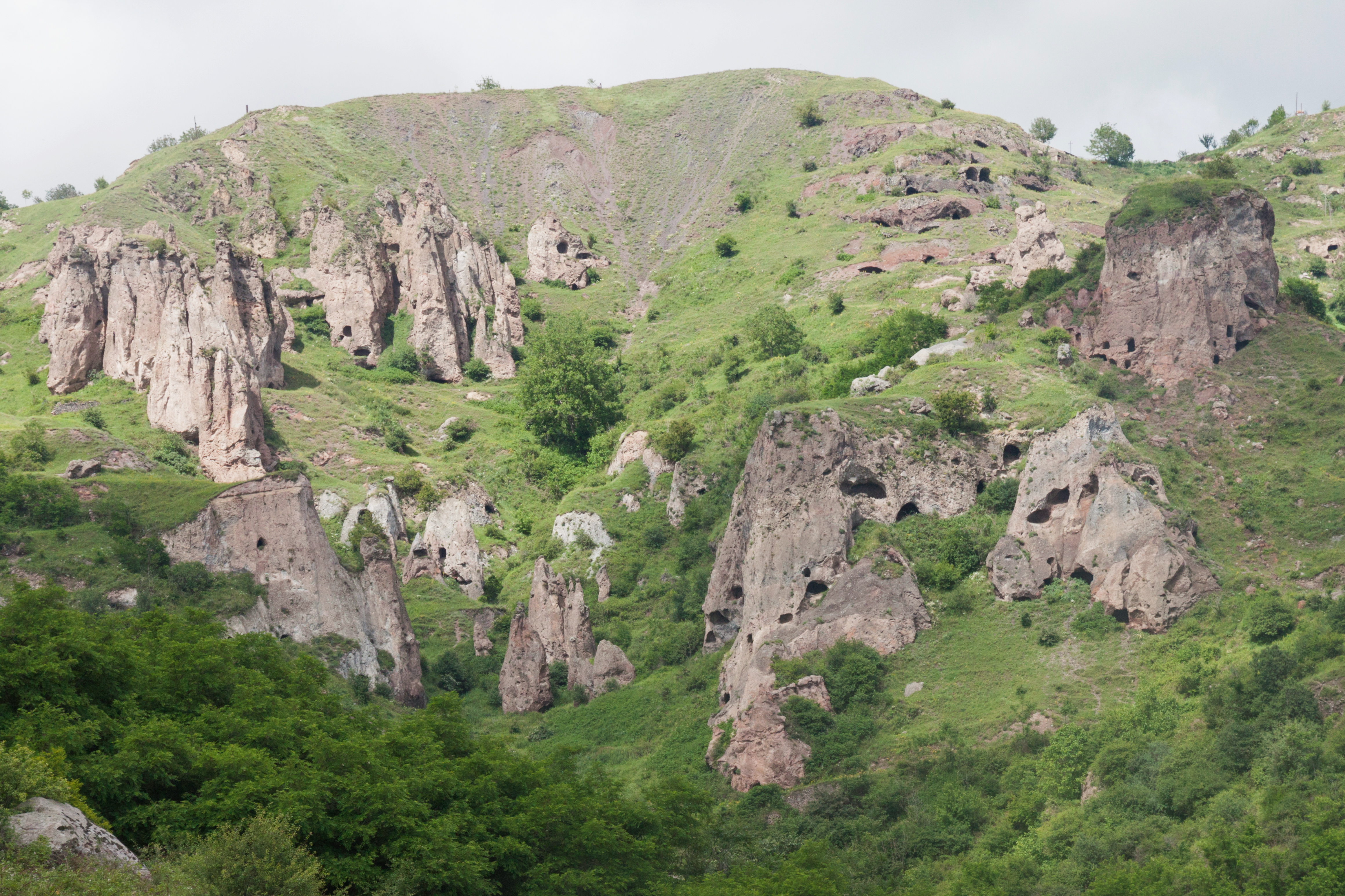 Rock formations and caves. Khndzoresk, Syunik Province, Armenia.